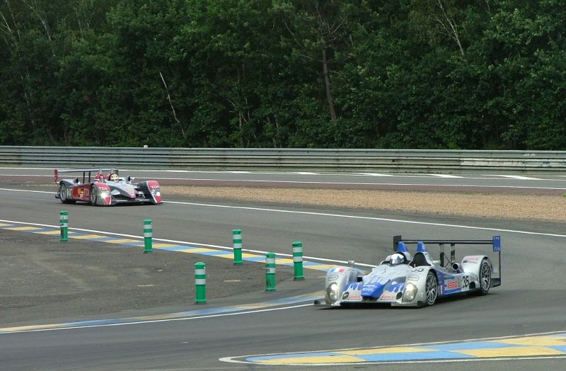 Saulnier Racing's Courage LC75-AER and Audi Sport North America's Audi R10 during the 2007 24 Hours of Le Mans